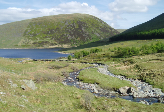 Megget Water and Megget Reservoir. Just to the east of Meggethead Farm, the Megget Water runs into the reservoir of the same name, which was completed in 1983 to supply Edinburgh and the Lothians with water.